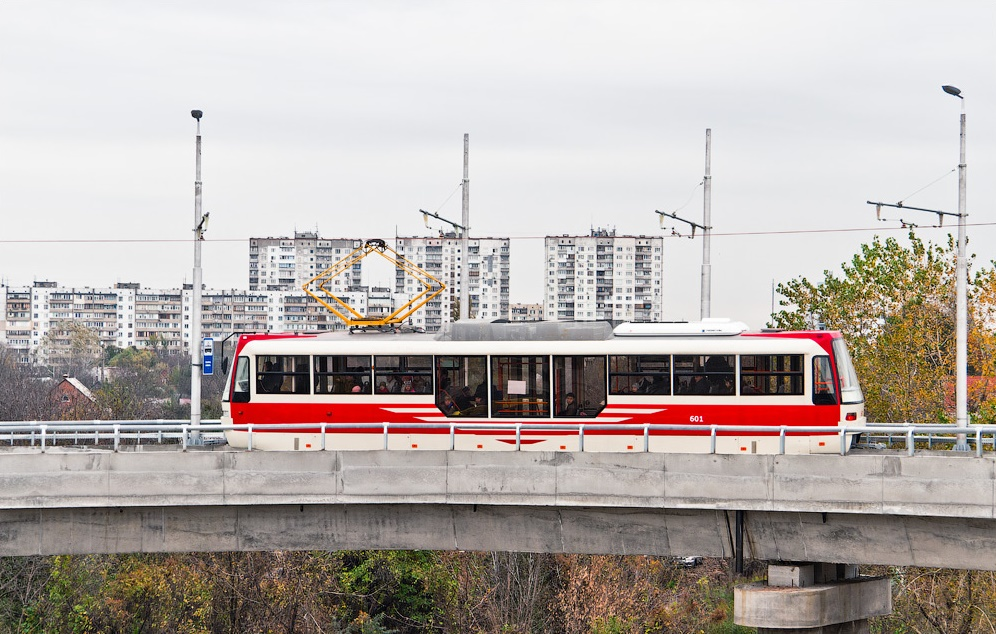 Kiev Fast Tram